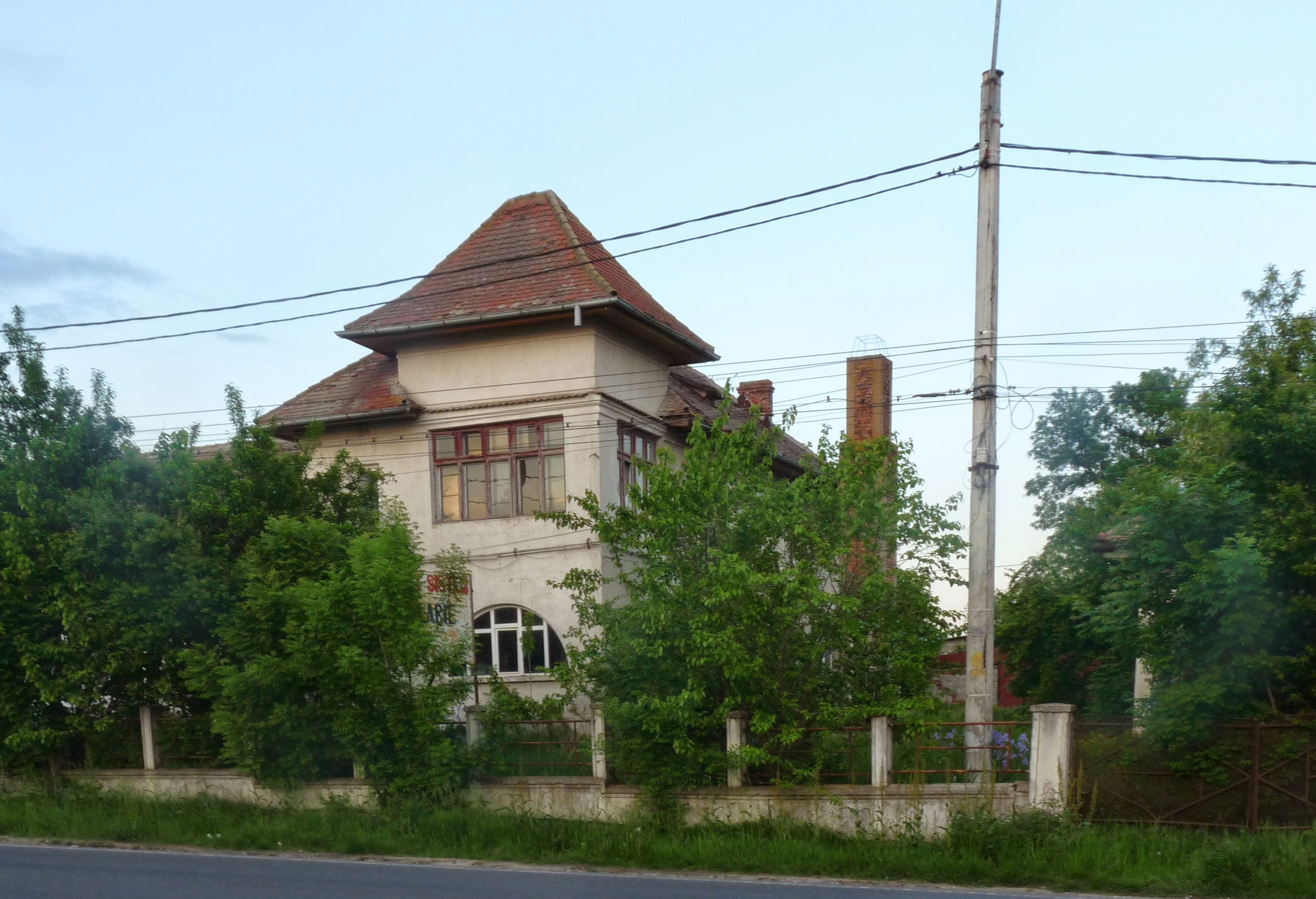 Inn in Tâncăbești, Ilfov County, RomaniaRomână: Hanul din Tâncăbești, județul Ilfov, România